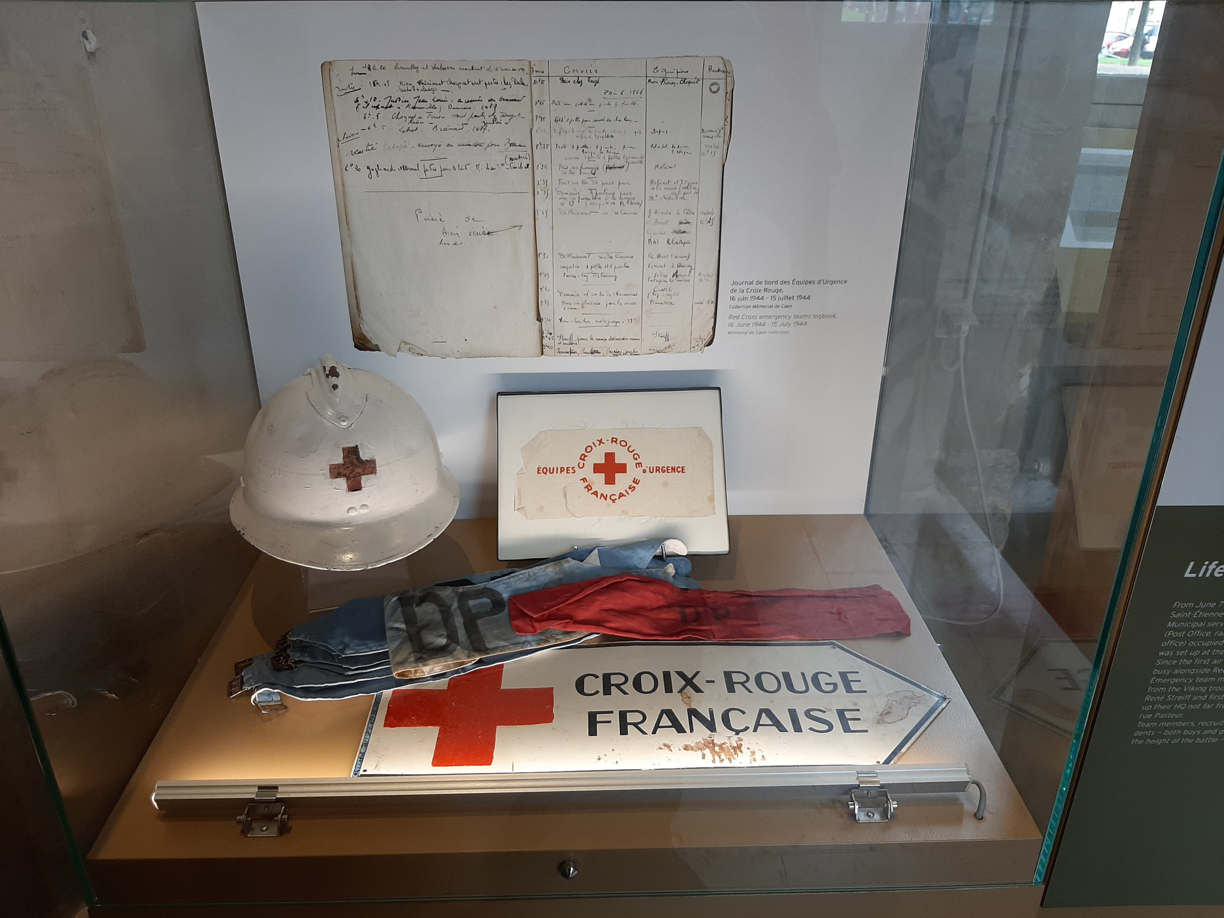 CRF - WWII